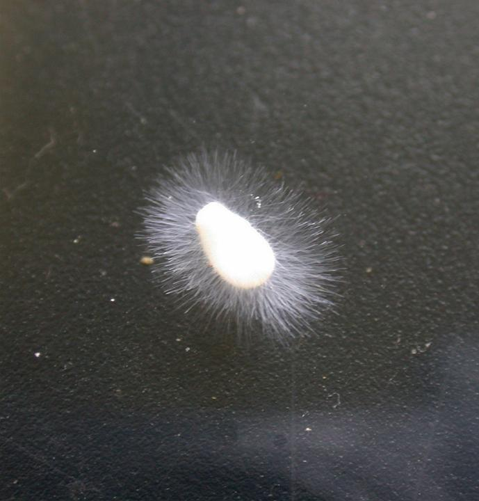 Water Mold(mizukabi) Mainly Achlya ap.(Oomycetes,Saprolegniales) Isolated from small stream around rice field Incubated in room temperature,on Hemp seed Date;2005,01,Susam town,Wakayama Pref. Japan Author;Keisotyo